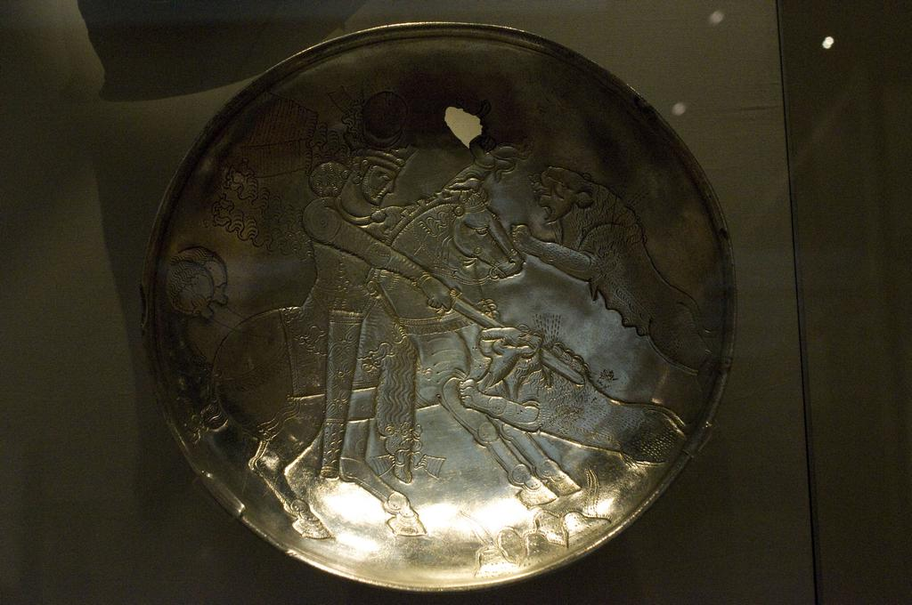 This unique Sassanid silver plate, which shows a Sassanian king hunting lions, dates to the 5th to 7th century AD and originated from either India or Afghanistan. It is today located in the Persian Empire collection of the British Museum.